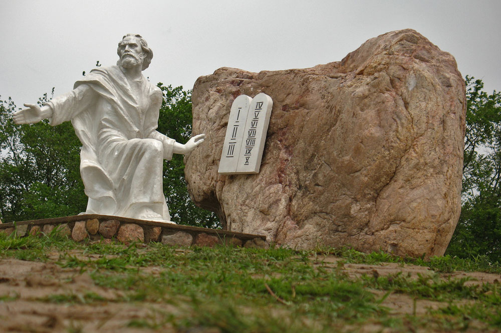 Park near St. Anne Church in Mosar, Hłybocki district, Belarus